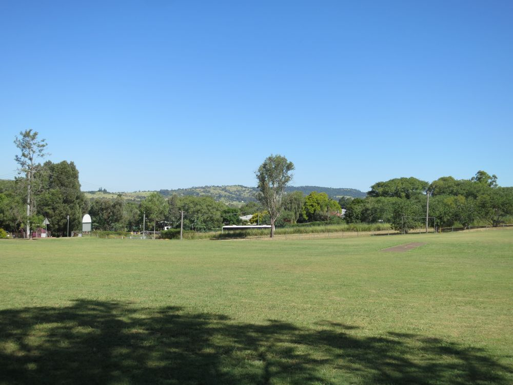 Playing field with views to surrounding area, from N (2015)